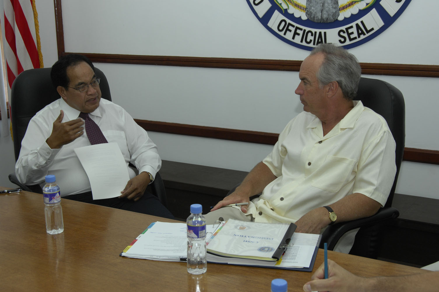 Commonwealth of the Northern Mariana Islands Governor Benigno Fitial (left) and United States Secretary of the Interior Dirk Kempthorne